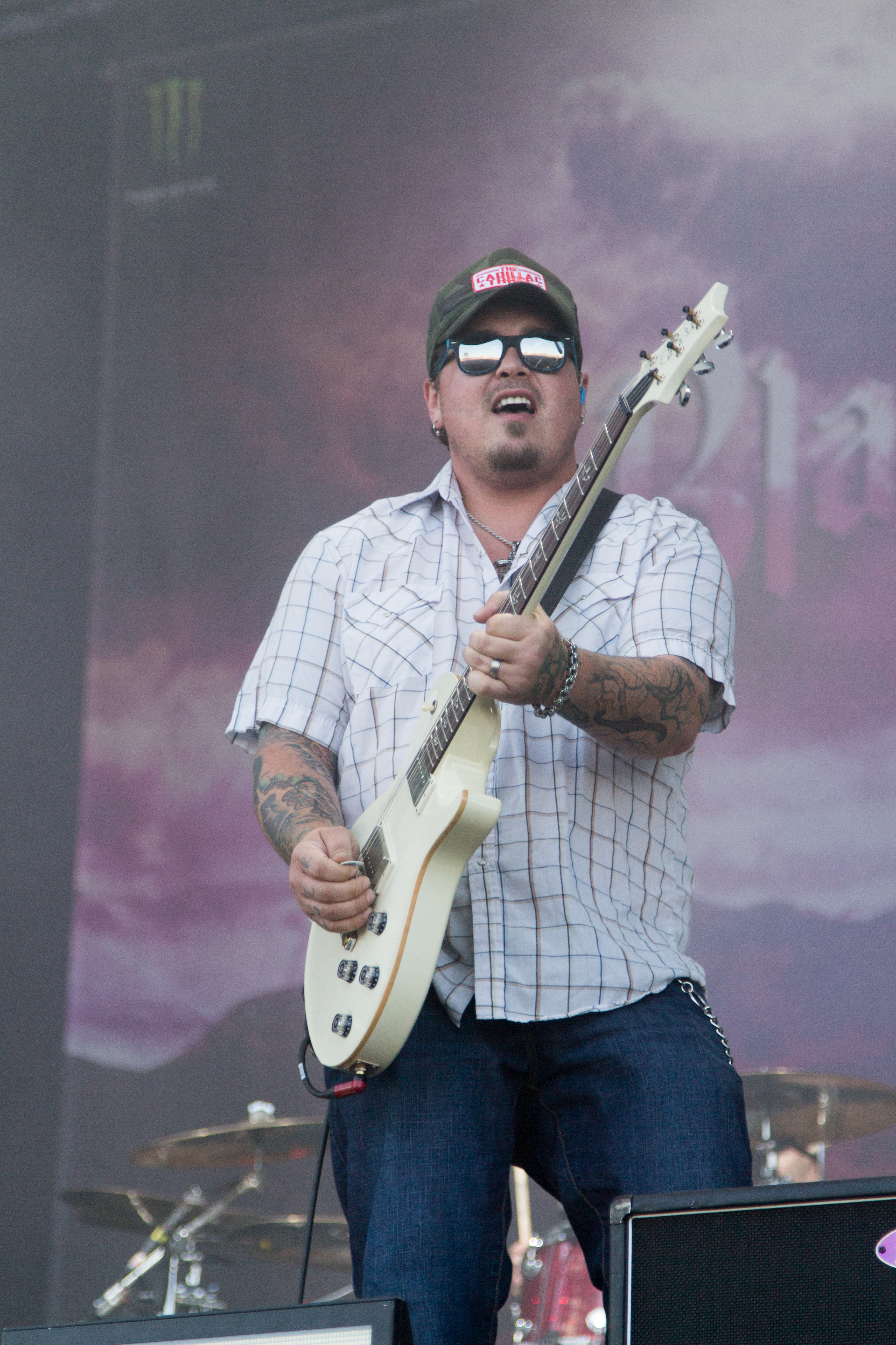 Chris Robertson from Black Stone Cherry at Nova Rock 2014